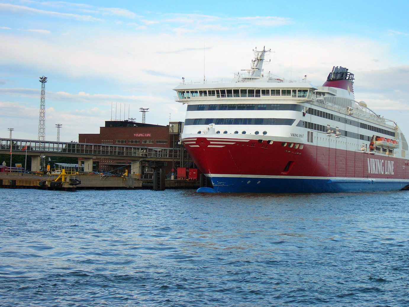 Viking Line ferry Viking XPRS at Katajanokka terminal in Helsinki. Finland